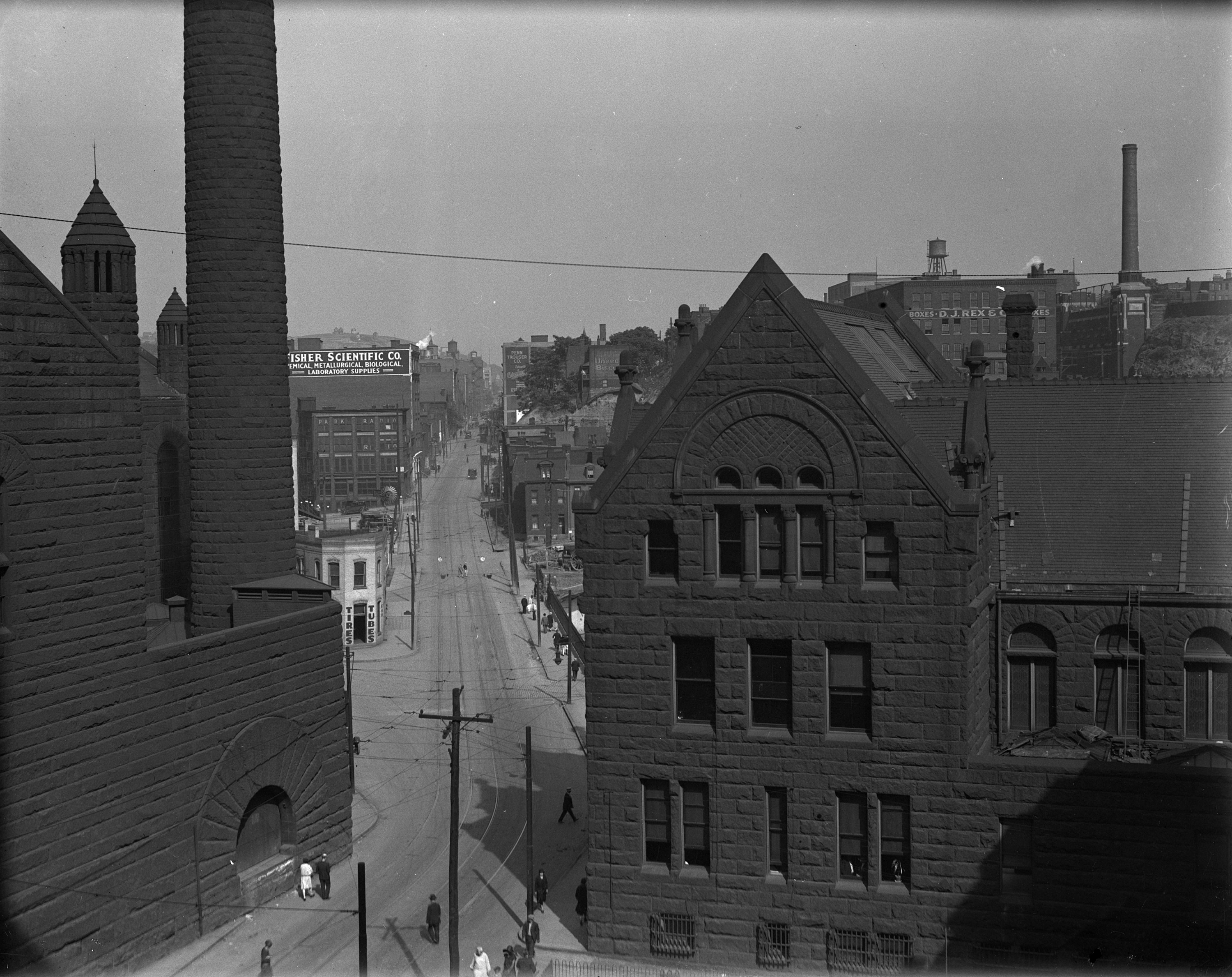 A view of Forbes Avenue looking east from the northeast corner of the 5th floor of the City County Building showing the Allegheny County Jail and the Allegheny County Coroner buildings. Date September 29, 1921 Subjects Jails Buildings Streets Allegheny County Courthouse and Jail (Pittsburgh, Pa.)